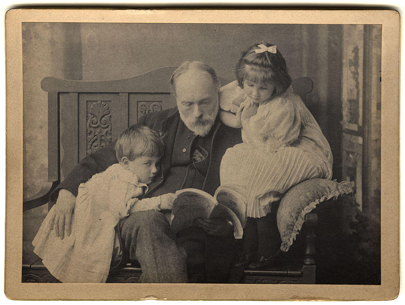 Edward Burne=Jones with Angelaackail (later Thirkell) on the right. On the left her sister Claire.